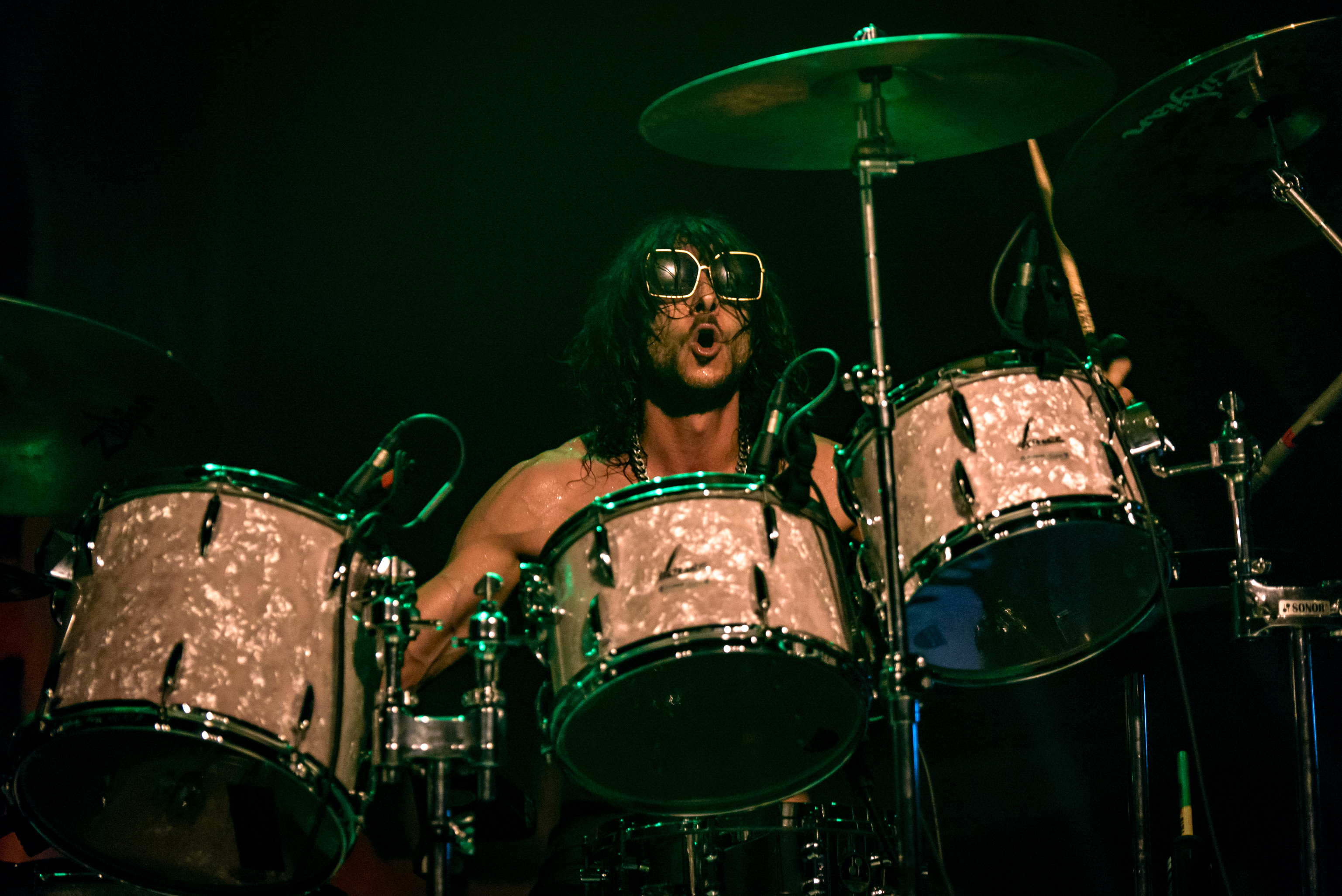 Wolfmother Live @ Munich 2016